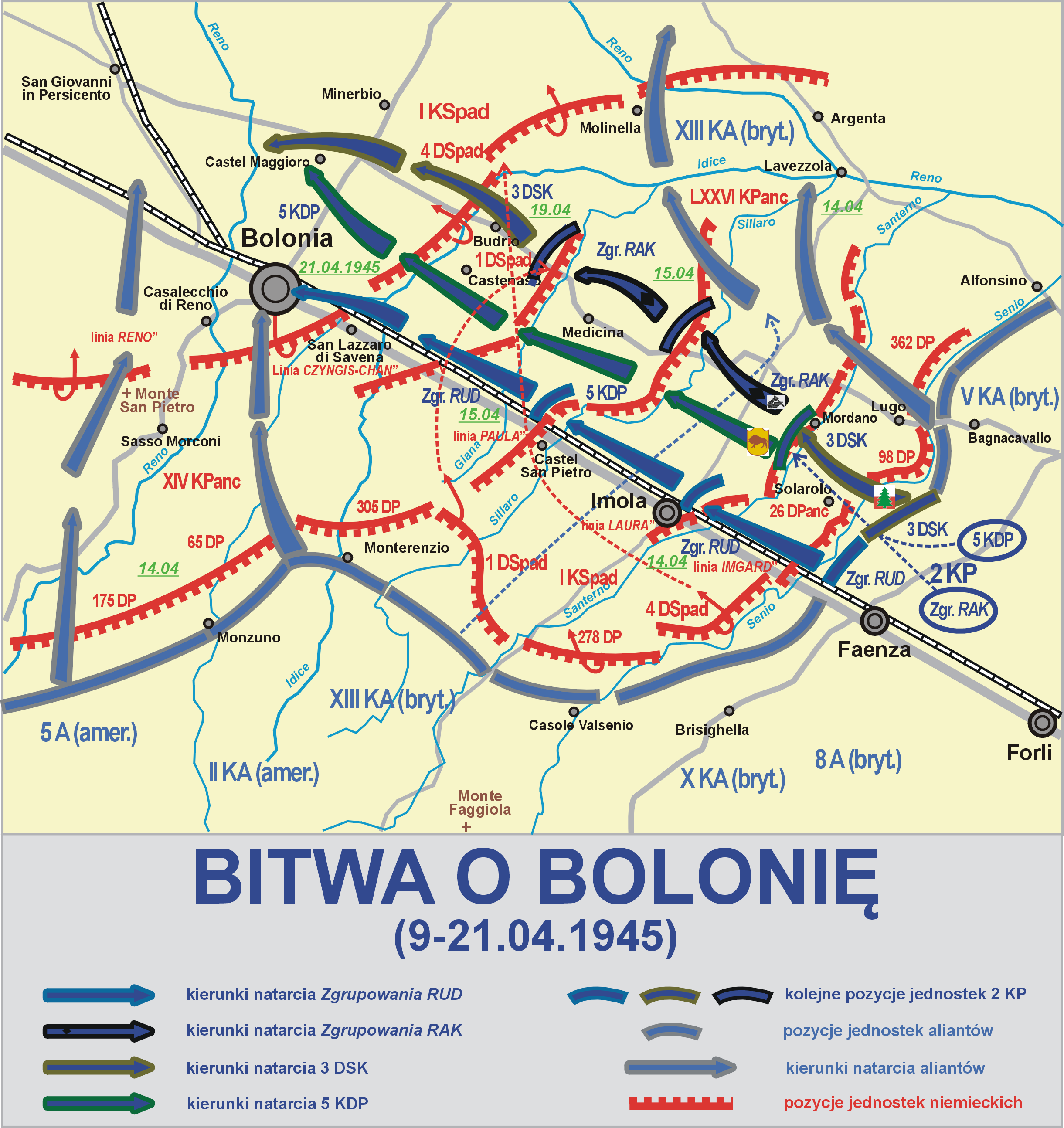 Battle of Bologna (9 - 21.04.1945)